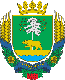 coat of arms of Sosnytskyi Raion